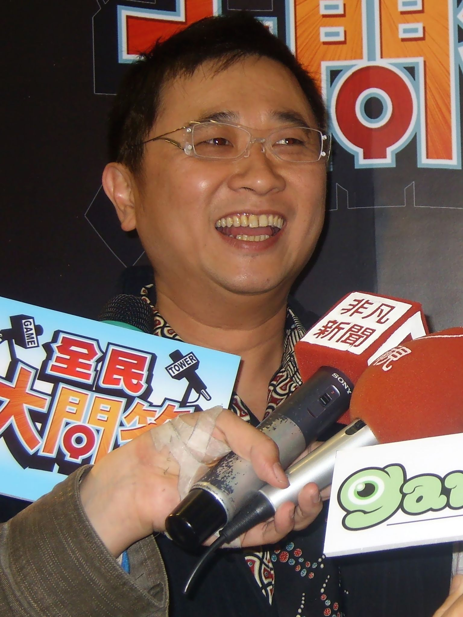 2008 Taipei Game Show: Chih-yuan Tai as a special guest of "MQA online" activity.Bân-lâm-gú: 2008-nî Tâi-pak Kok-tsè Tiān-guán-tián: Thai Tì-guân sī MQA online ua̍h-tōng ê ti̍k-pia̍t lâi-pin. 2008年臺北國際電玩展：邰智源是MQA online活動的特別來賓。